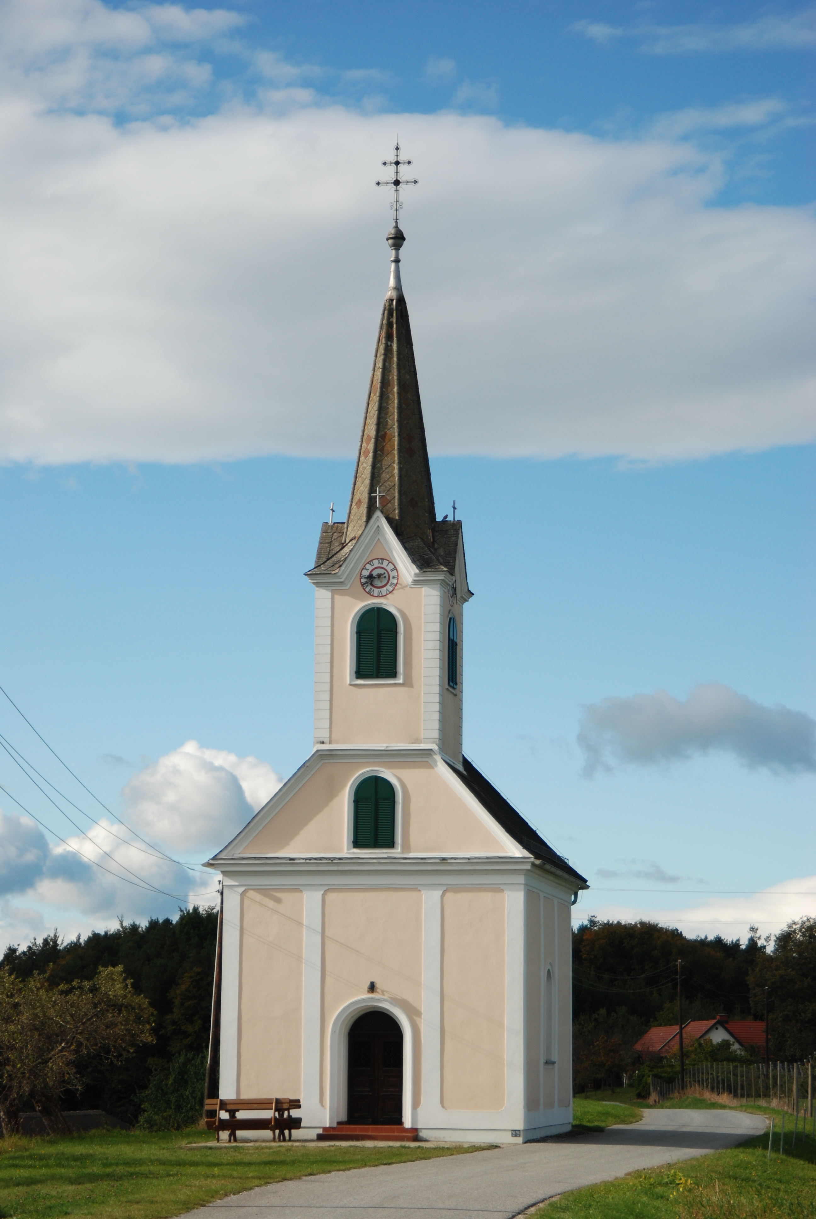 Ortskapelle und Messkapelle Nestelbach